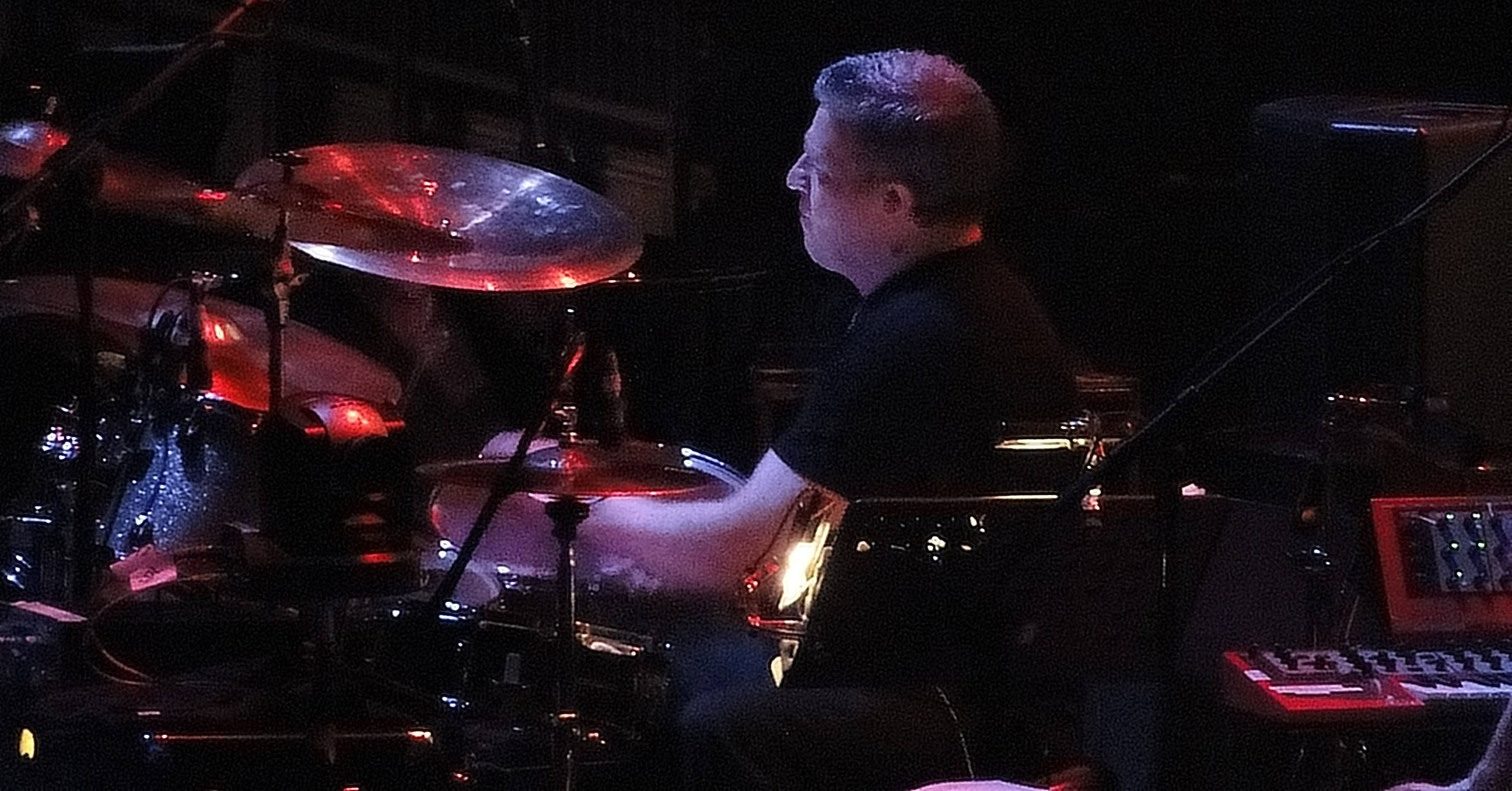 Paul Thompson, drummer, appearing with Roxy Music, LG Arena, Birmingham, 31/1/2011